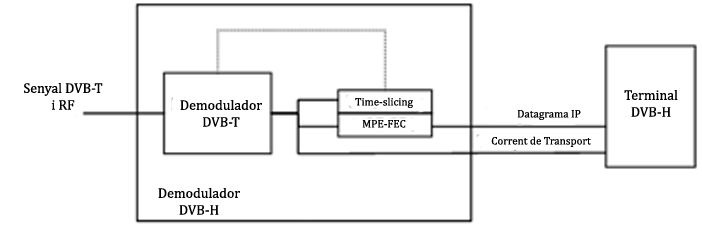 demodulator DVB-H